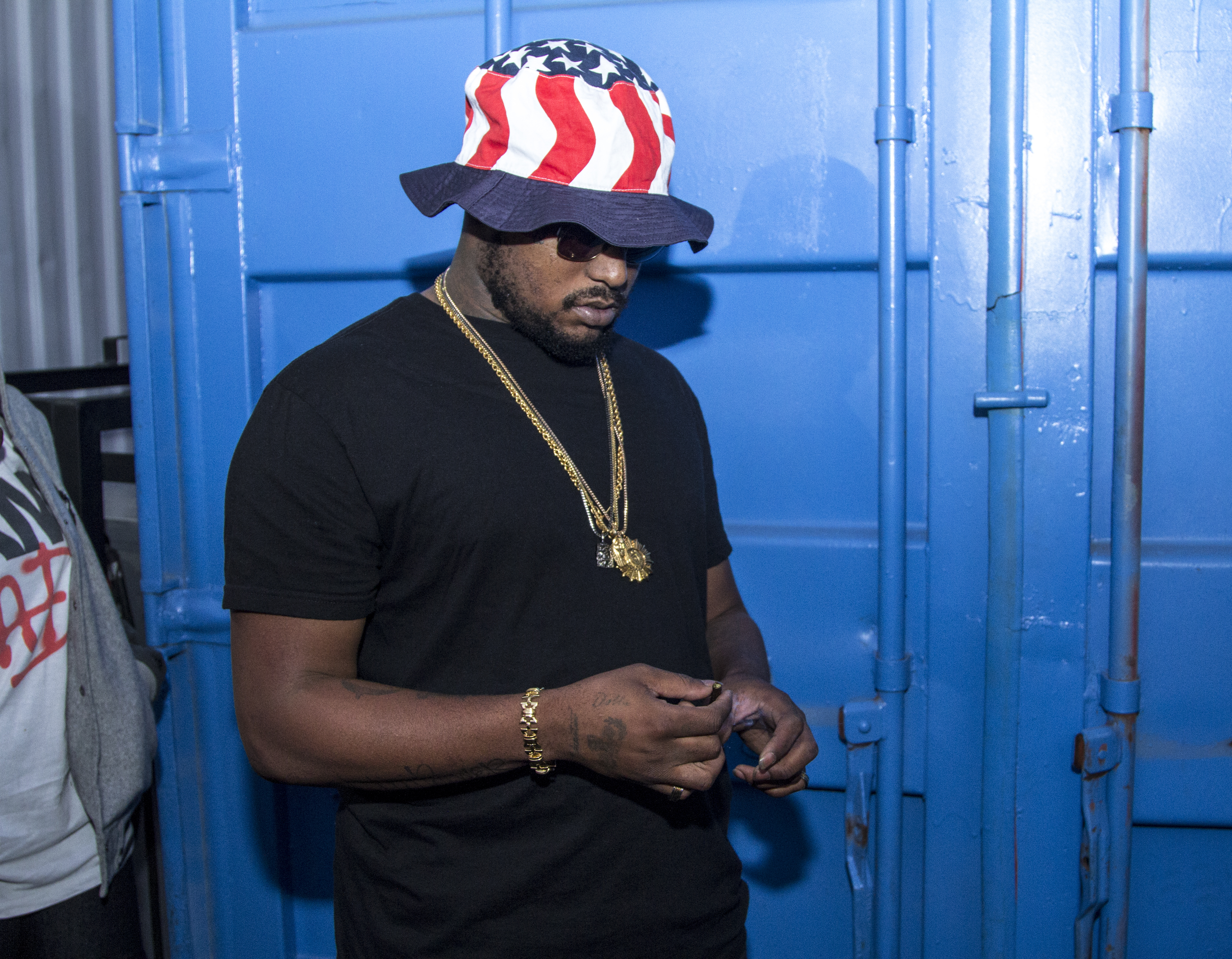 Schoolboy Q in August 2012